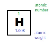 Atomic number and atomic weight